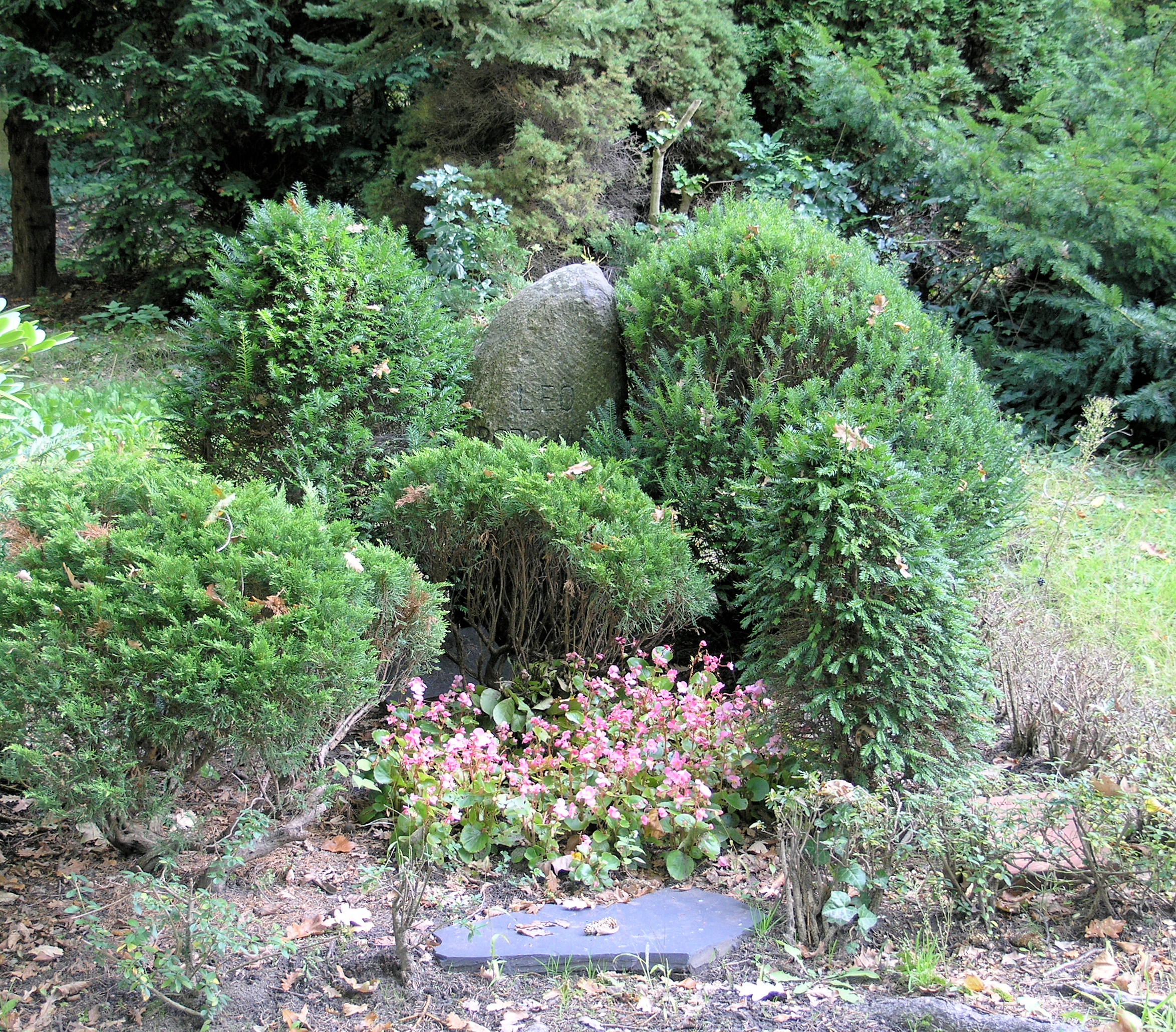 "Ehrengrab", Leo Borchard, Bergstraße 38, Berlin-Steglitz, Germany Koordinate:52°27′31″N 13°20′33″E / 52.45861°N 13.3425°E